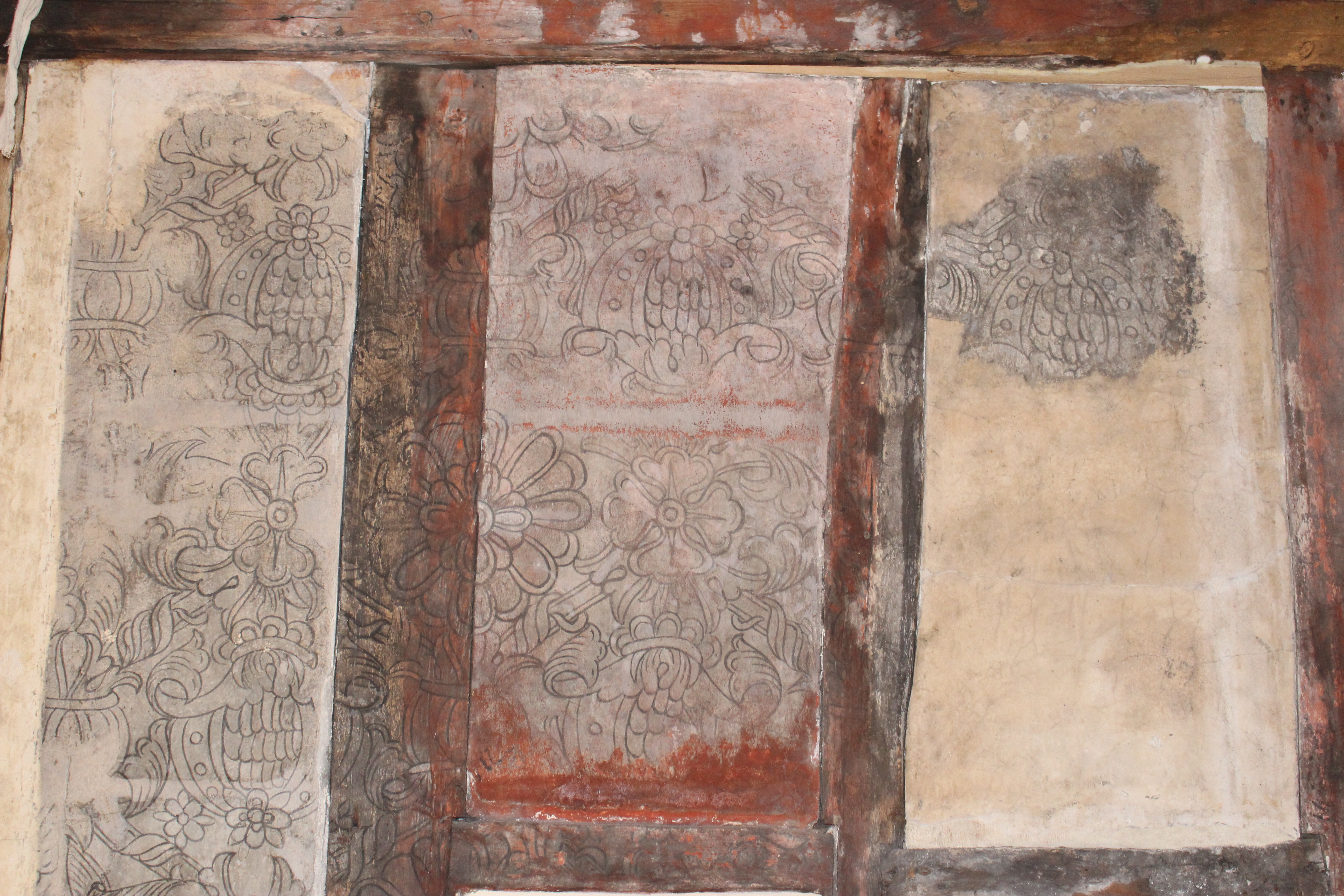 Wall painting inside upstairs hall of Beverley Friary, Beverley, East Riding of Yorkshire, England.Painting believed to be late 15th or early 16th century and was rediscovered during restoration work in the 1970s.